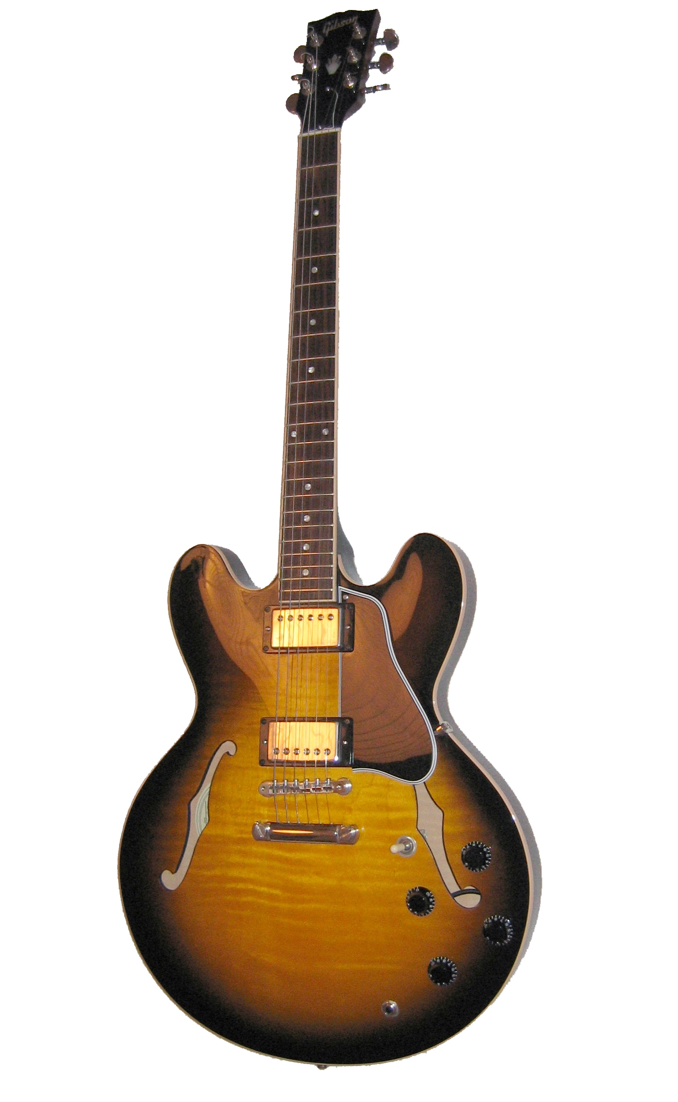 Gibson ES-335 guitar, sunburst finish